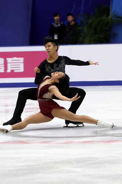 Photos – Cup of China 2017 – Pairs (Wenjing SUI & Cong HAN CHN – Gold Medal)